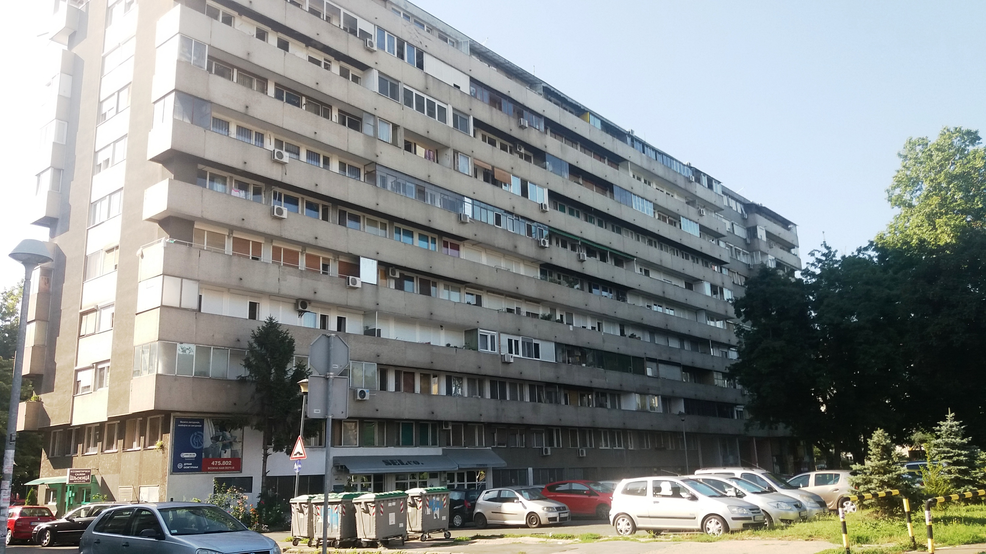 Building, block 3, New Belgrade